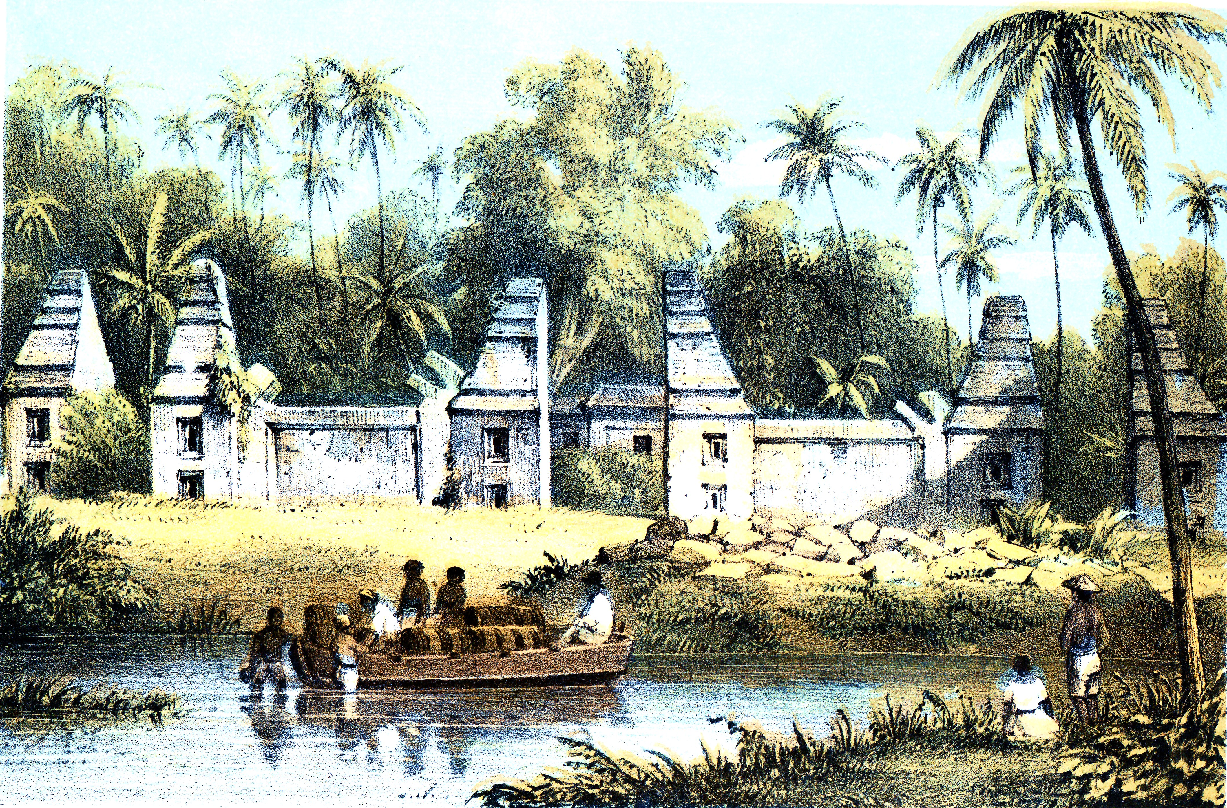 Ruine van de Dalam van Bantam